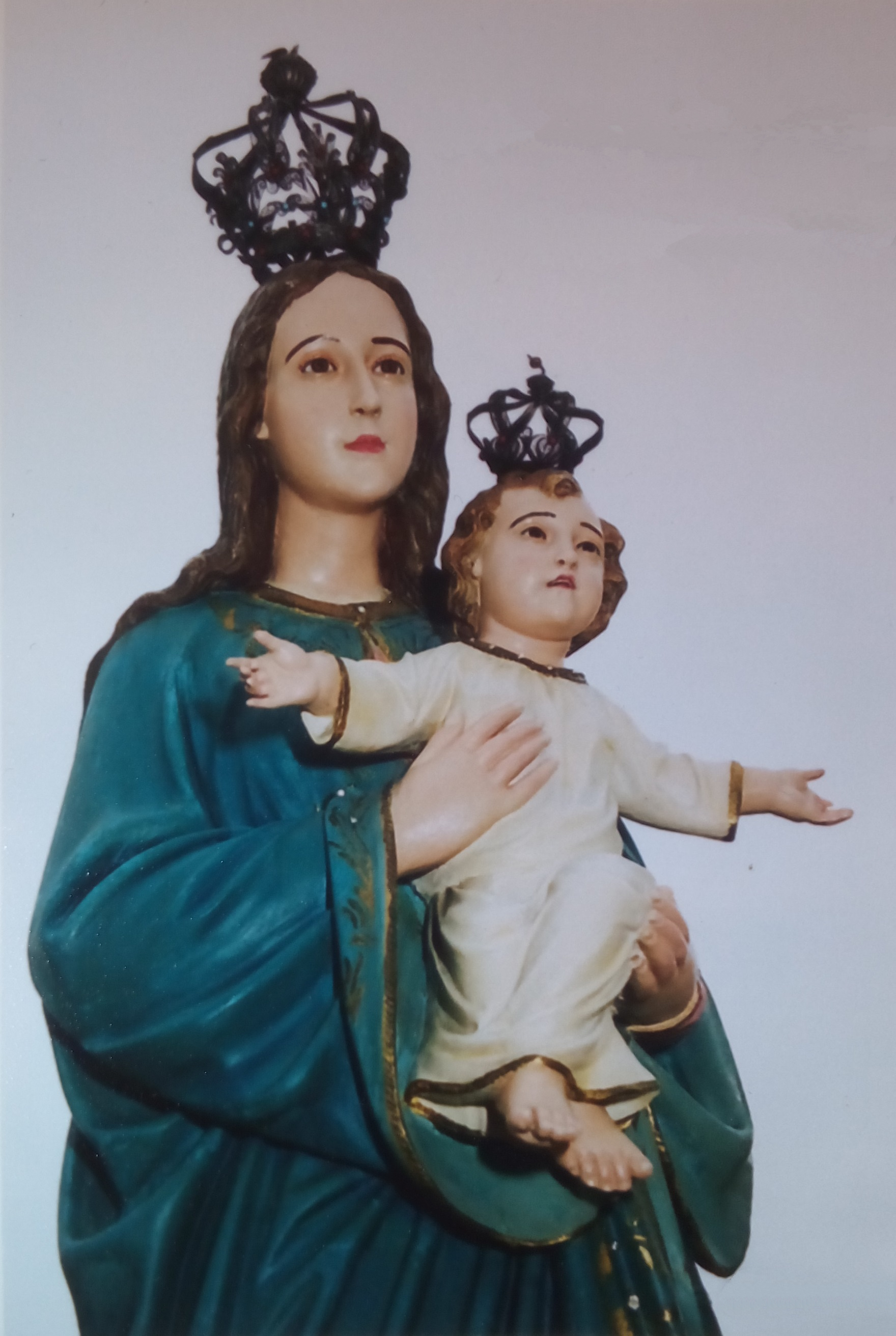 Image of Our Lady of Graces in the Church of Nossa Senhora da Graça, Corroios, Portugal.